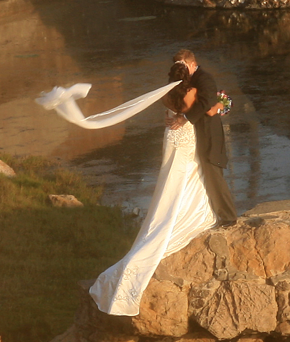 Bride and groom at the ruins of Sutro bath